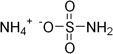 chemical structure of ammonium sulfamate